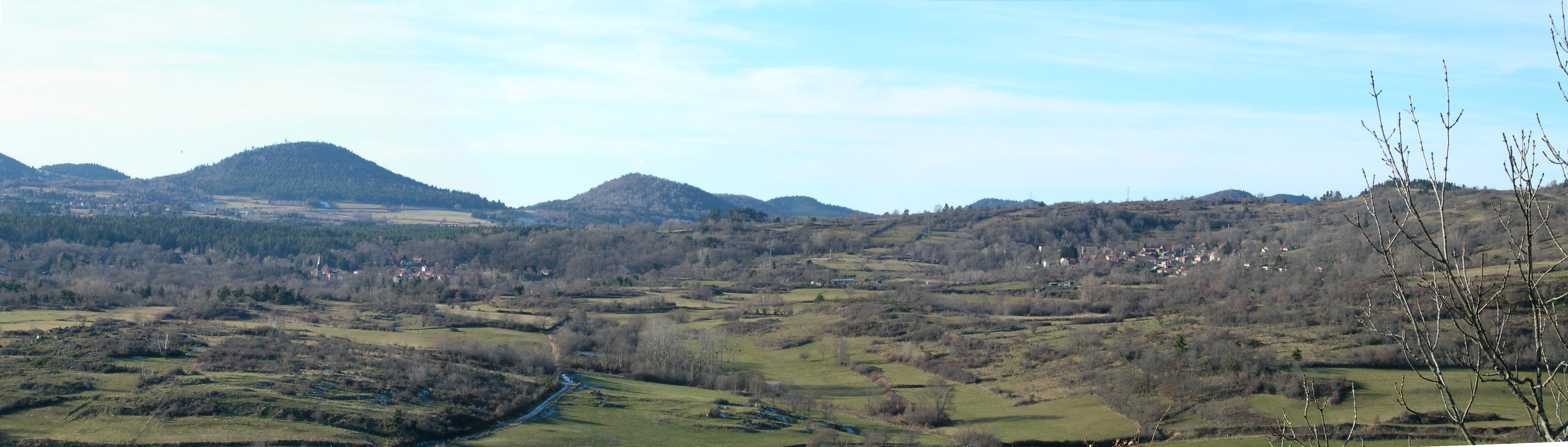 The villages of Rouillat-Bas on the left and Rouillat-Haut on the right with the "Chaîne des Puys" on the back ground (Commune of Aydat, Puy-de-Dôme, France). Picture taken from the summit of Mont Redon (832 m) near the village of Ponteix.